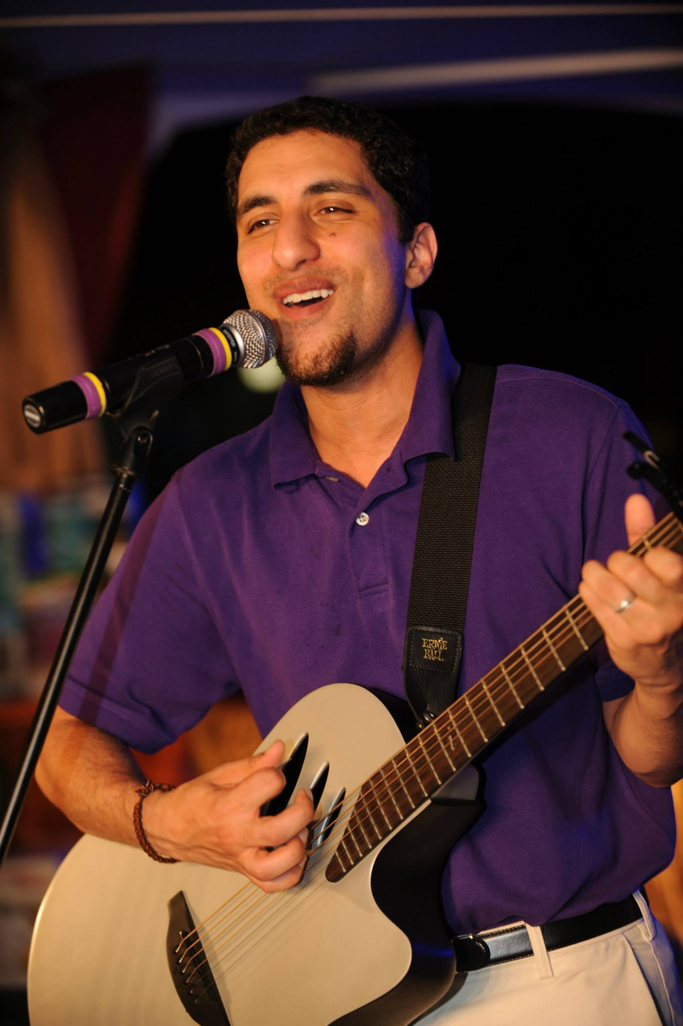 Raef performing in a Midcenter Mall park concert, Trindad & Tobago (2014)